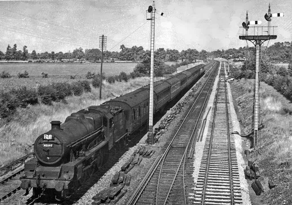 Bradford to Bournemouth West express at Standish Junction. View northward at Standish Junction, where the four-track main lines from Gloucester and Cheltenham divide into two routes, one (to left) going to Bristol, the other to Swindon. This is a 'classic' view, as it shows not only a characteristic London Midland steam express but also tall surviving ex-Midland Railway signals. The train is the 07.45 Bradford (Forster Square) to Bournemouth West express, which the engine will work as far as Bath (Green Park), whence the train will continue to its destination by the Somerset & Dorset line - closed nearly 50 years ago. The locomotive is LMS 'Jubilee' 6P 4-6-0 No. 45597 'Barbados'